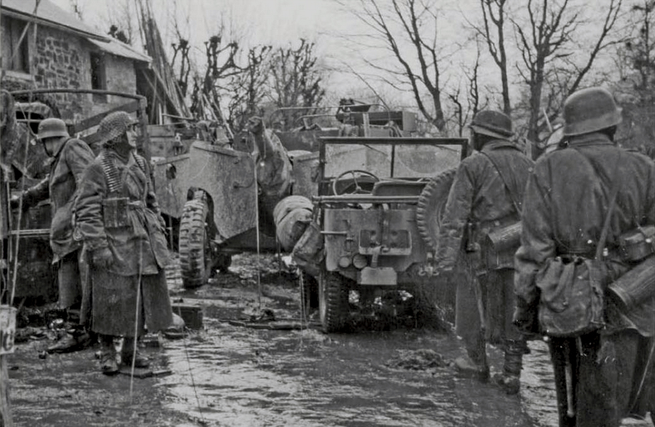 Panzergrenadiers of the 1st SS Panzer Division look through abandoned American equipment at Hosfield, Belgium.